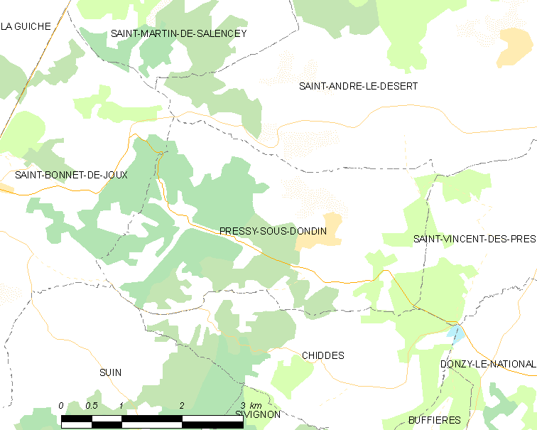 Map of French municipality